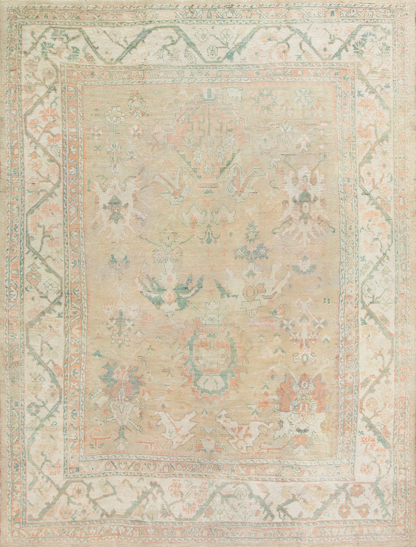 In the villages of Western Anatolia in Turkey, tribesmen near Oushak continue the traditions of centuries of weaving artistry. The distinctive look and feel of these Oushak rugs make them unmistakable.The artistic knotting techniques of the Oushak produce a unique carpet. Sometimes knotted at fewer than 30 knots per inch on an all-wool base, artists replicate older Ushak/Smyra designs.